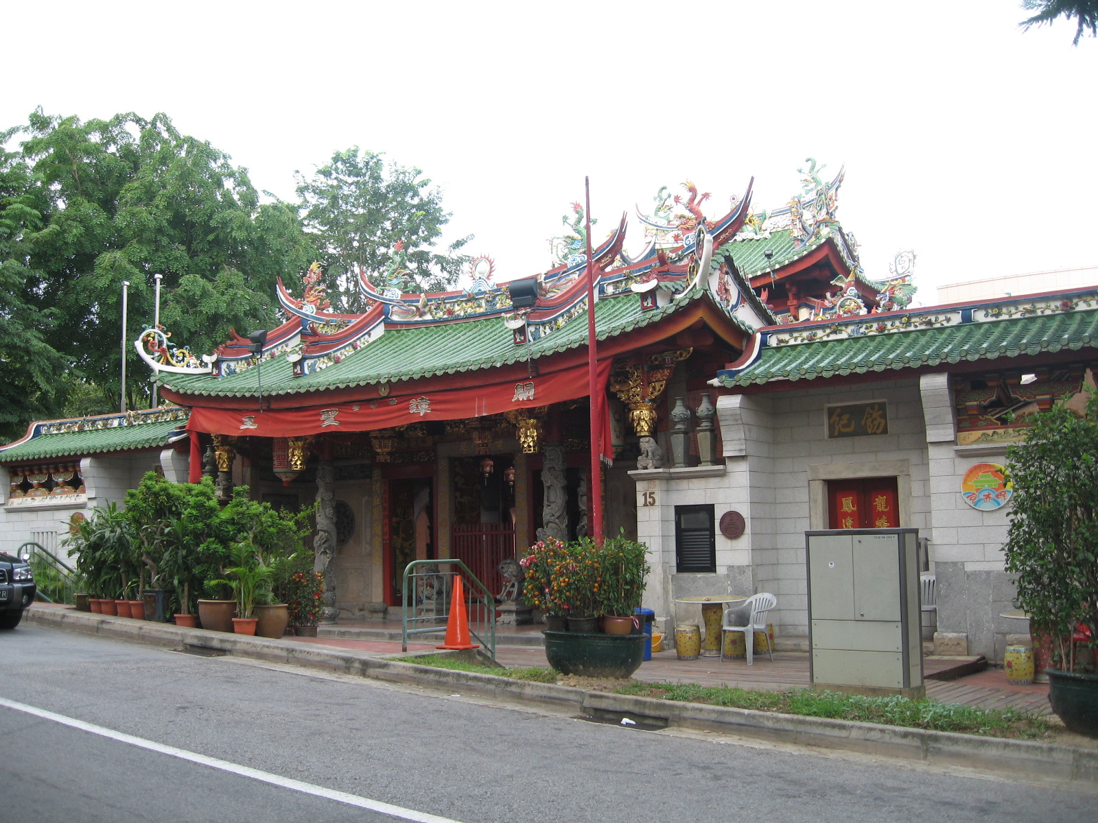 Tan Si Chong Su.